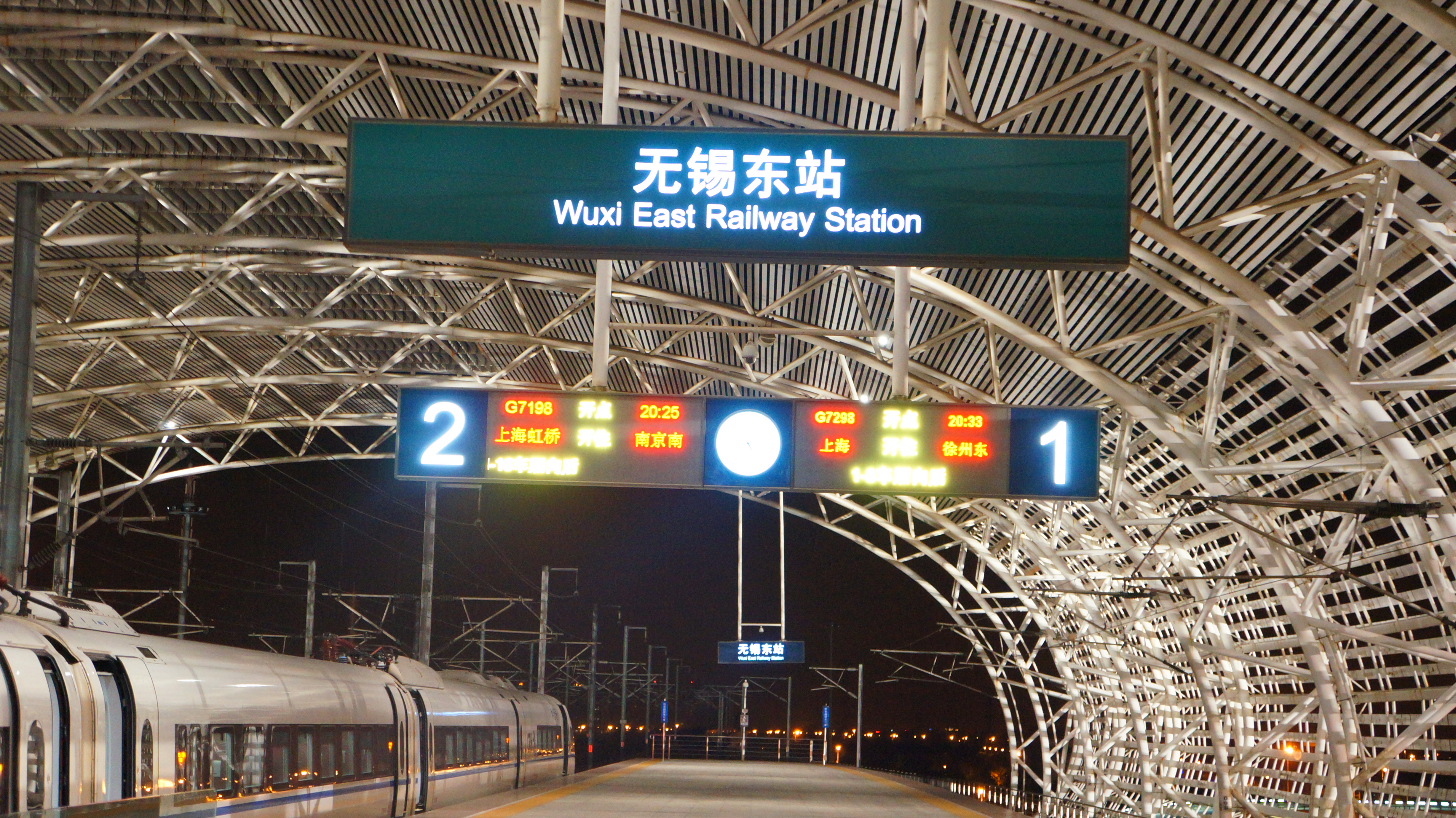 Platform 1,2 of Wuxidong Railway Station